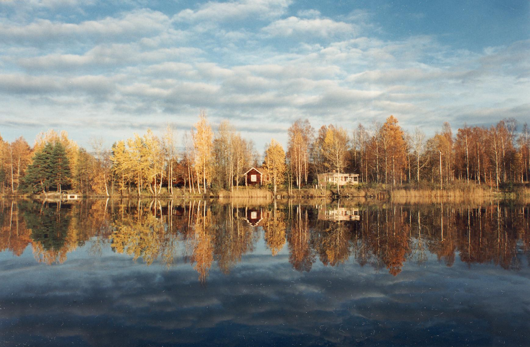 Standers on the west coast of Lake Upper Hillen, as released by image owner FamSAC; Place: Sjöbovägen 6242, Ludvika-Smedjebacken, Sweden